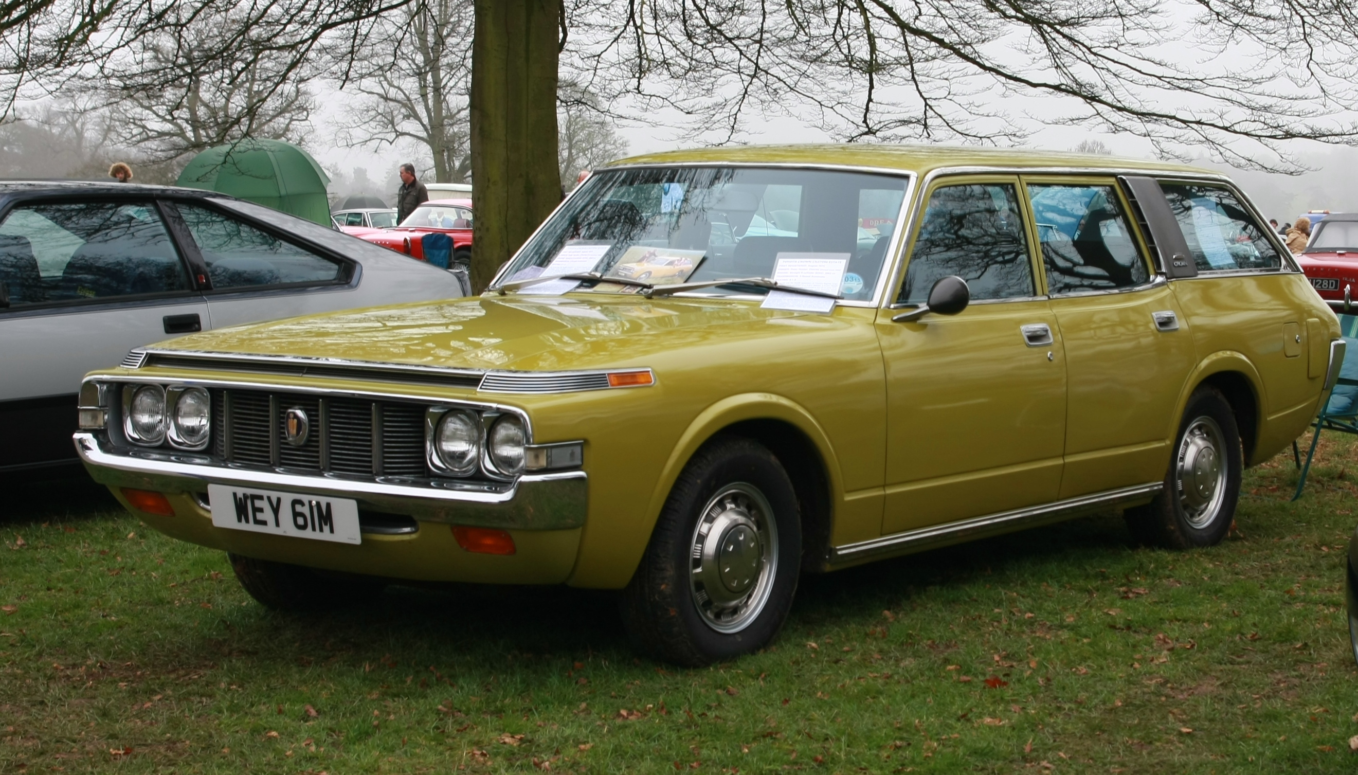 Toyota Crown S60 estate